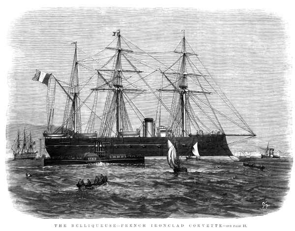 French ironclad (armoured corvette) Belliqueuse, launched in 1865, and serving 1866 to 1886.